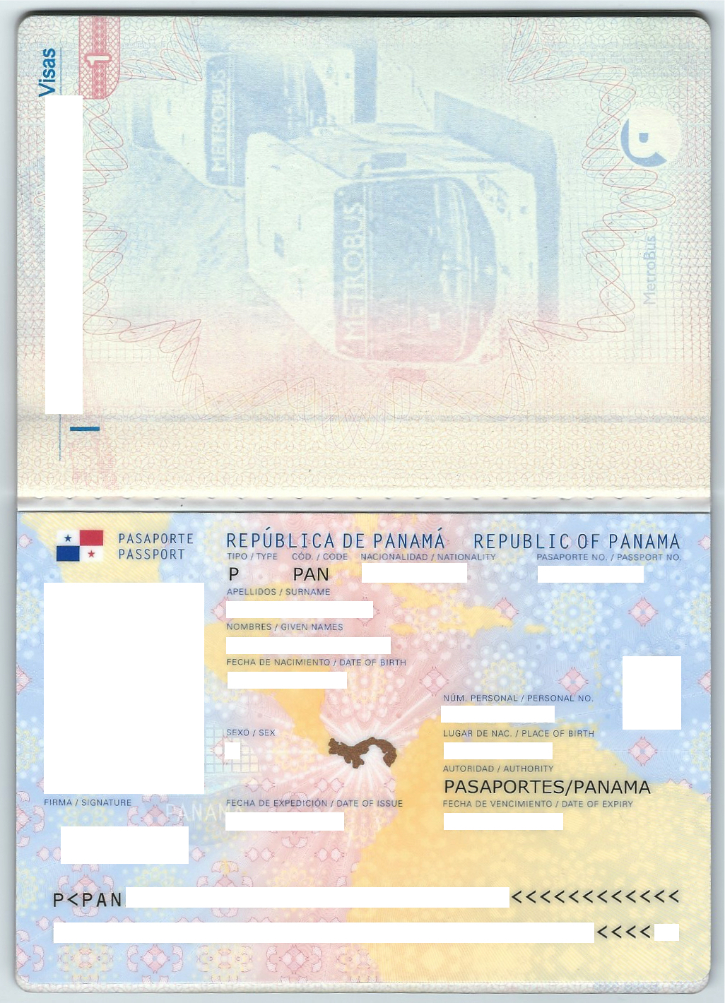 Data Page of a Panamanian Bio-metric Passport